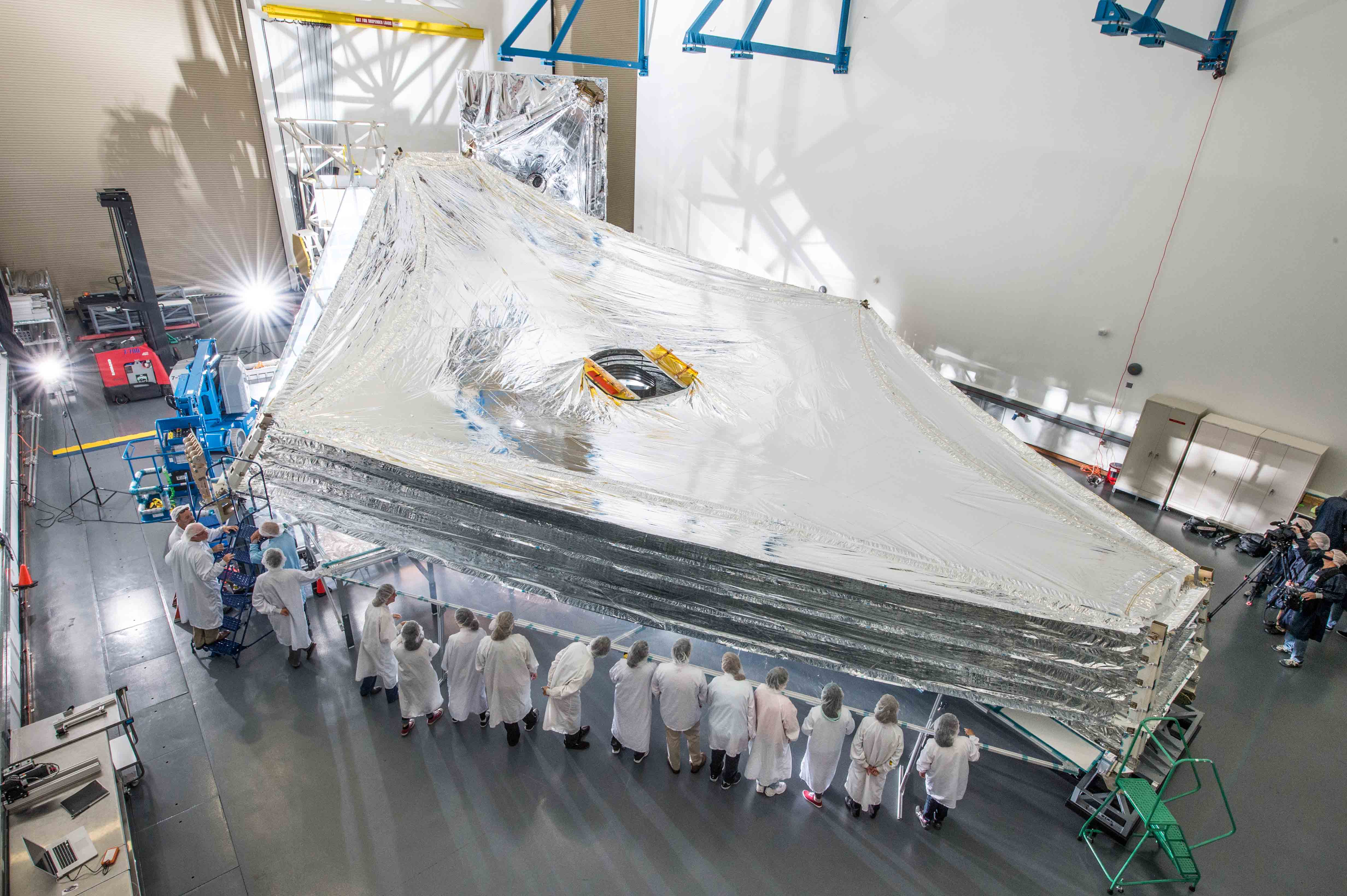 NASA: The Sunshield on NASA's James Webb Space Telescope is the largest part of the observatory—five layers of thin membrane that must unfurl reliably in space to precise tolerances. Last week, for the first time, engineers stacked and unfurled a full-sized test unit of the Sunshield and it worked perfectly. The Sunshield is about the length of a tennis court, and will be folded up like an umbrella around the Webb telescope’s mirrors and instruments during launch. Once it reaches its orbit, the Webb telescope will receive a command from Earth to unfold, and separate the Sunshield's five layers into their precisely stacked arrangement with its kite-like shape. The Sunshield test unit was stacked and expanded at a cleanroom in the Northrop Grumman facility in Redondo Beach, California.